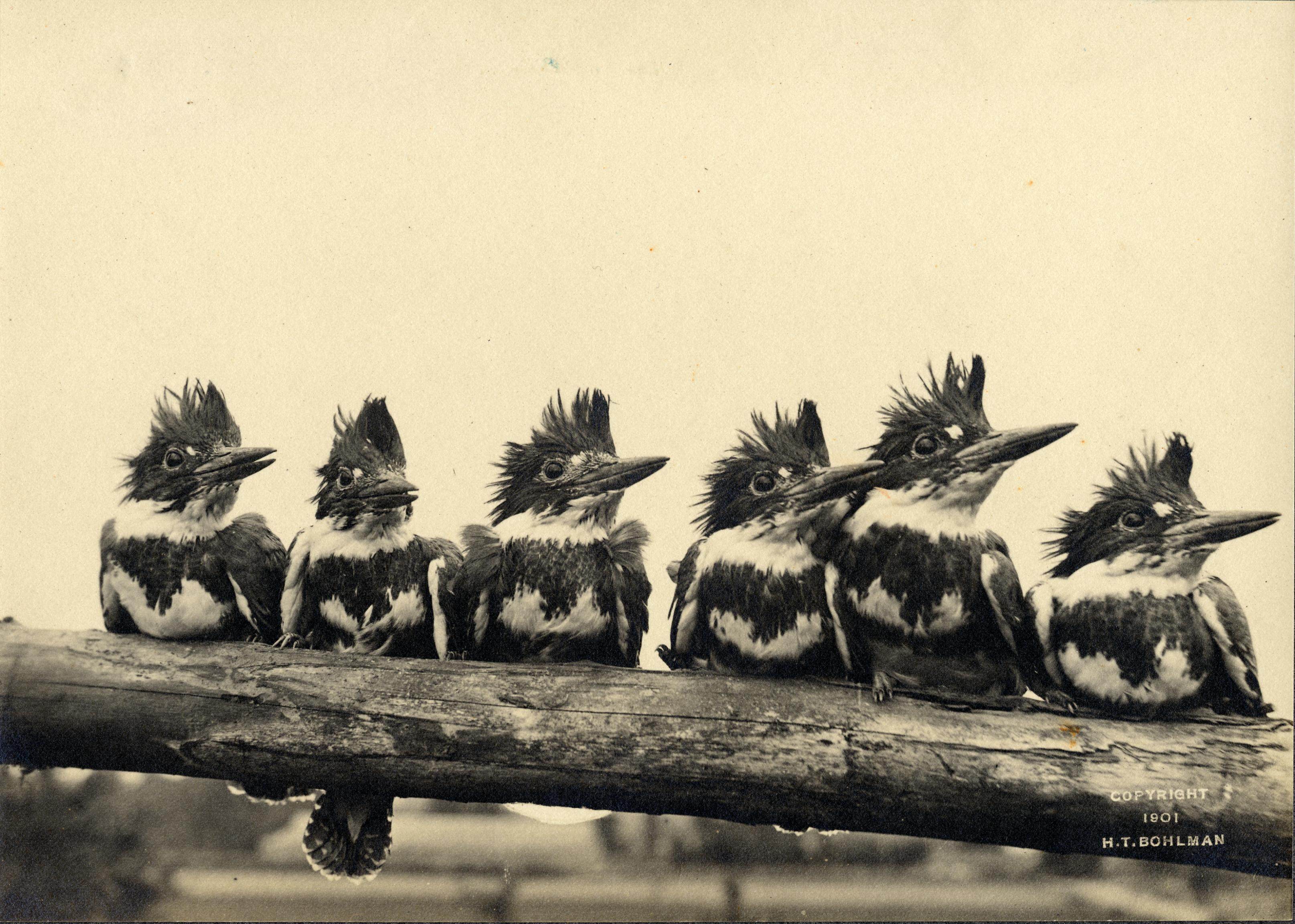 Image Title: Six of the frowzy-headed Fishers in a pose Photographer/Studio: Finley, William Lovell (1876-1953); Bohlman, Herman T. Time Period: 1900-1909 Description/Notes: Photos were used in the 1908 "American Birds" book by William Lovell Finley. The photo is found opposite page 145. Original Format: Gelatin silver prints Original Collection: MSS - William L. Finley Papers Item Number: mss-finley Related Material: American Birds, Studied and Photographed from Life; Online Copy Restrictions: Permission to use must be obtained from the OSU Archives. Click here for further information or a high resolution copy of this image. Click [#//digitalcollections.library.oregonstate.edu/cdm4/client/archives/index.html here] to view The Best of the Archives. Click here to view Oregon State University's other digital collections. We're happy for you to share this digital image within the spirit of The Commons; however, certain restrictions on high quality reproductions of the original physical version may apply. To read more about what “no known restrictions” means, please visit the OSU Archives website.